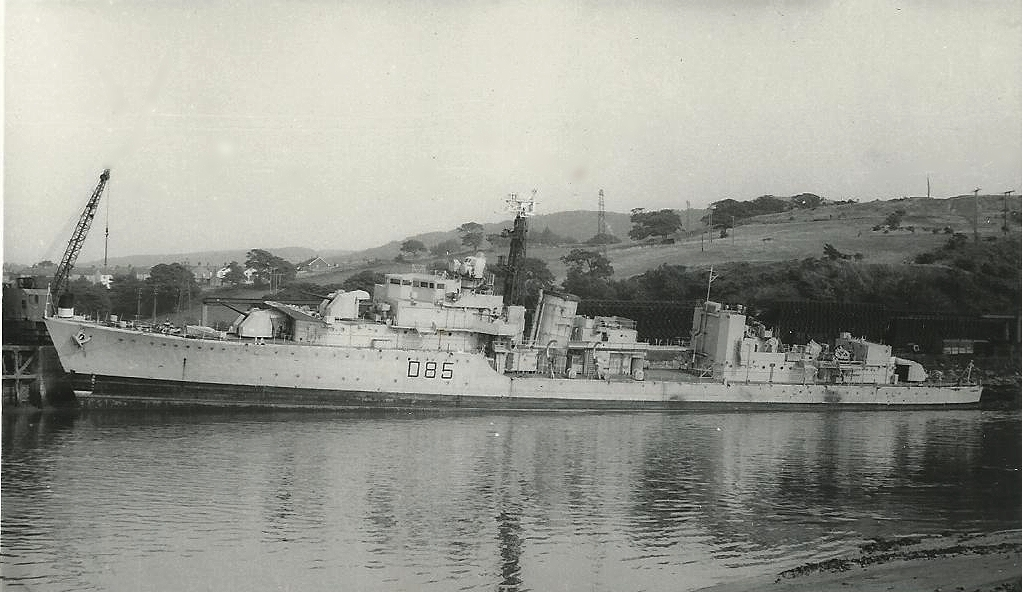 "C" Class ("CA" Group) Standard War Emergency Destroyer "HMS Cambrian", 1,710 tons, launched 1943 and scrapped at Wards Scrapyard Briton Ferry, Giants Grave, as seen above, 09/71 "Cambrian" served in the Home Fleet 1944-45 on Arctic Convoy duties and escorting carrier strikes against German bases and shipping in Norway; in 1945 she went to the East Indies Fleet Scanned photograph taken with a Kowa SET